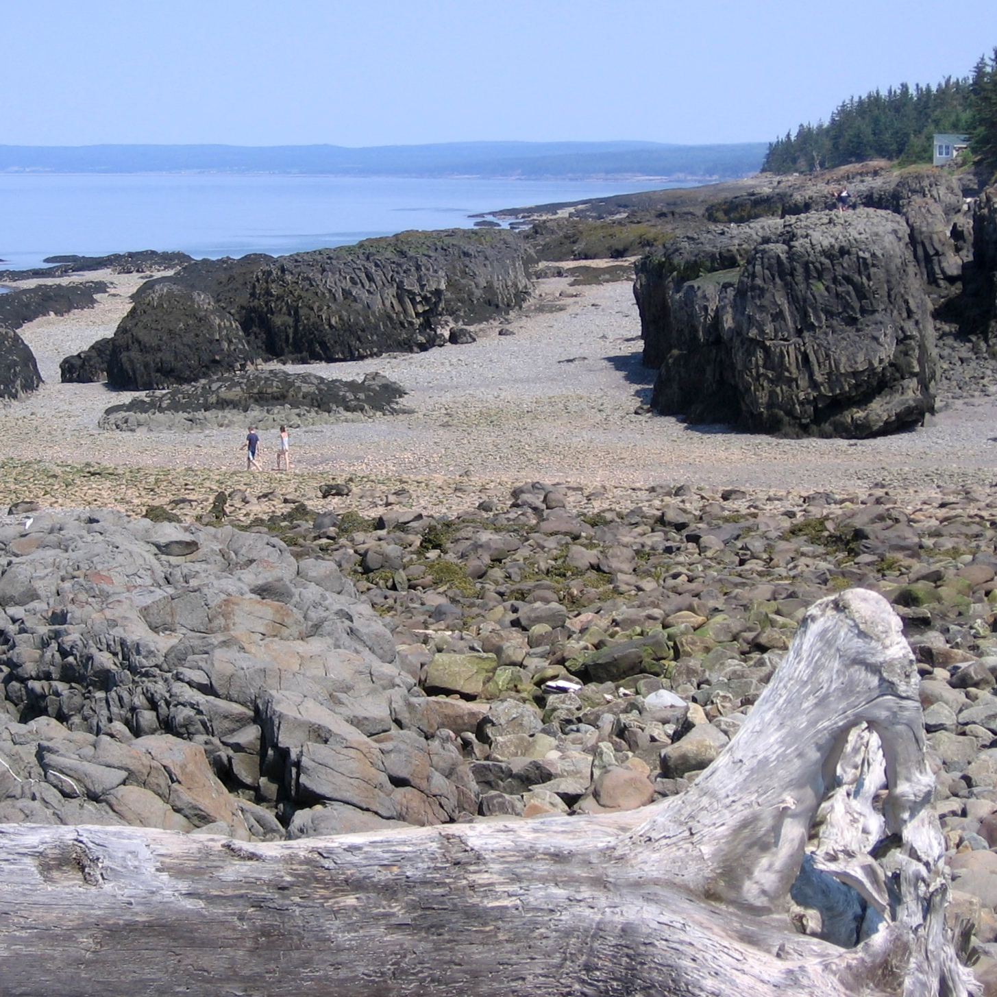 View of the beach at Baxter Harbour NS